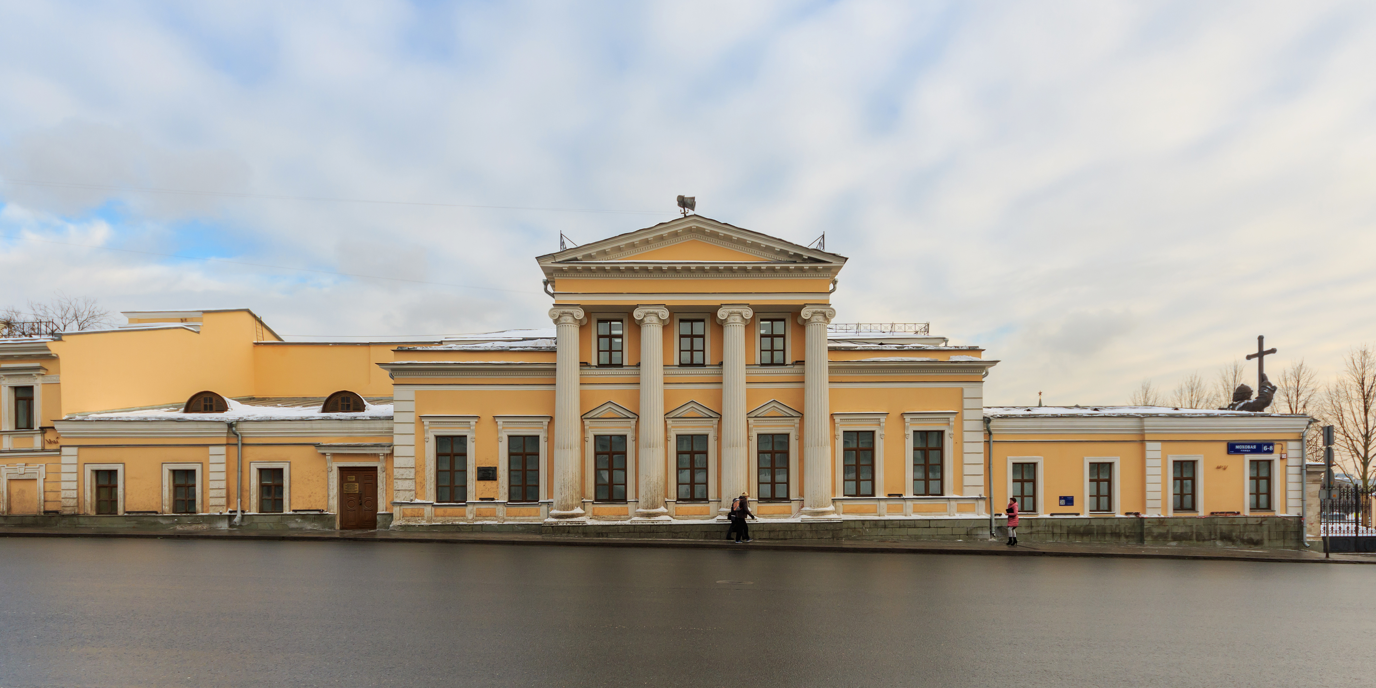 Former Shakhovskoy Mansion in Moscow, Russia